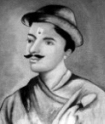 Nepali Generals (including Commander-in-Chiefs) between 1740s to 1810s; Maheshwar Panta